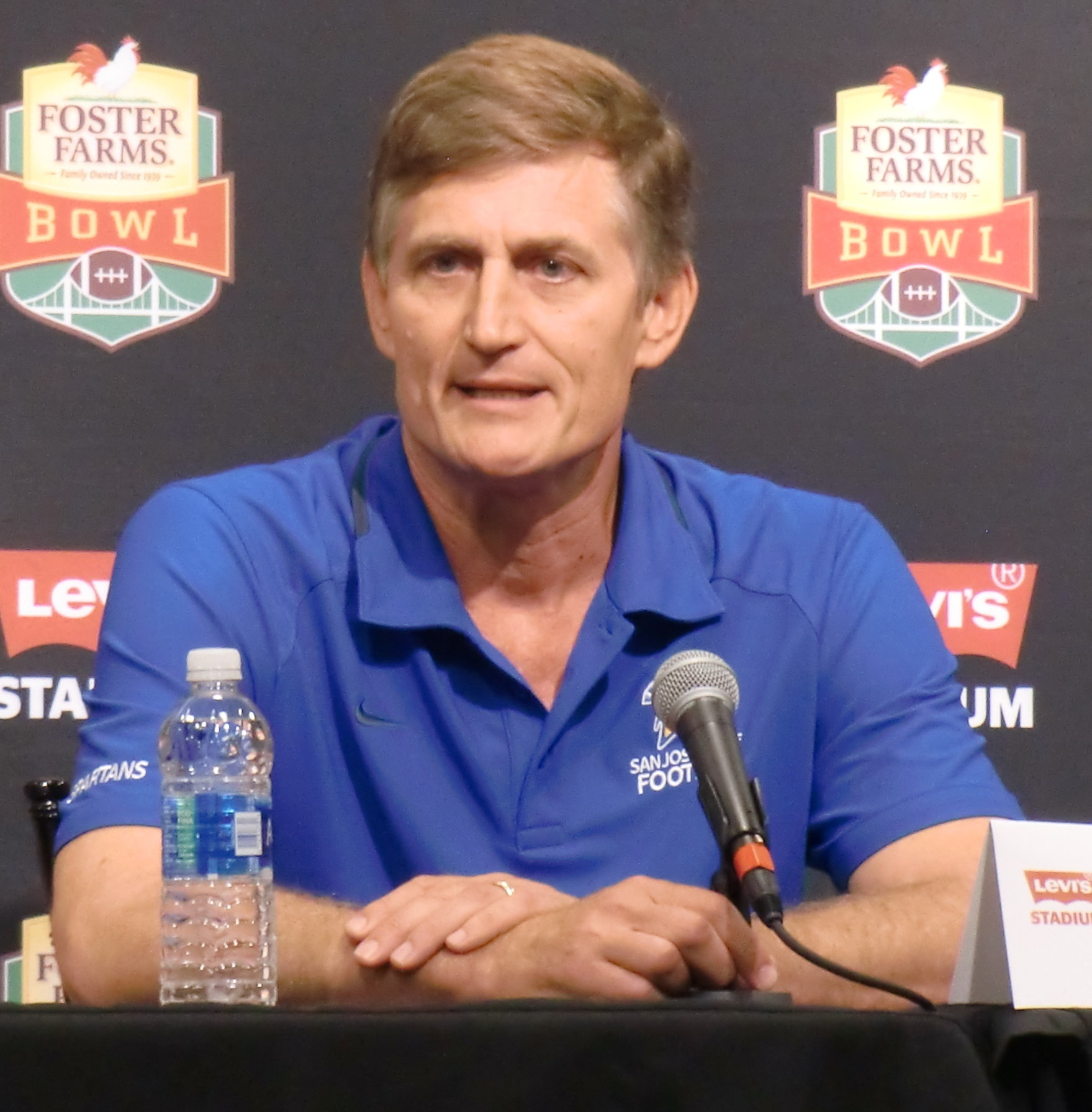 San Jose State University football head coach Ron Caragher speaks at Bay Area College Football Media Day at Levi's Stadium in Santa Clara, California on July 28, 2016.